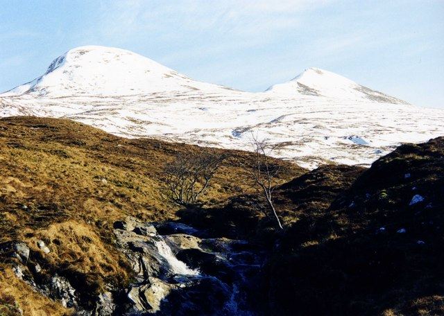 Sgùrr Choinnich Beag and Sgùrr Choinnich Mòr Spring thaw.